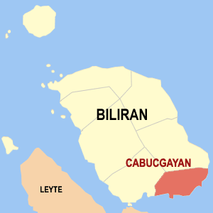 Map of Biliran showing the location of Cabucgayan